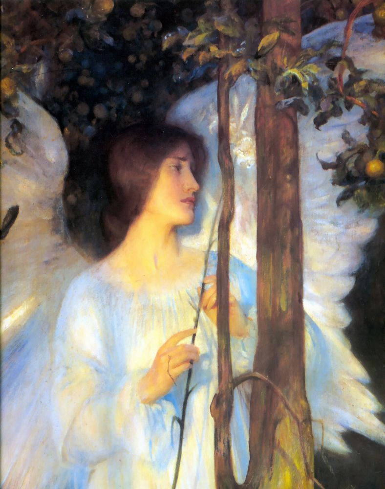 The Cloister of the Bell (detail)